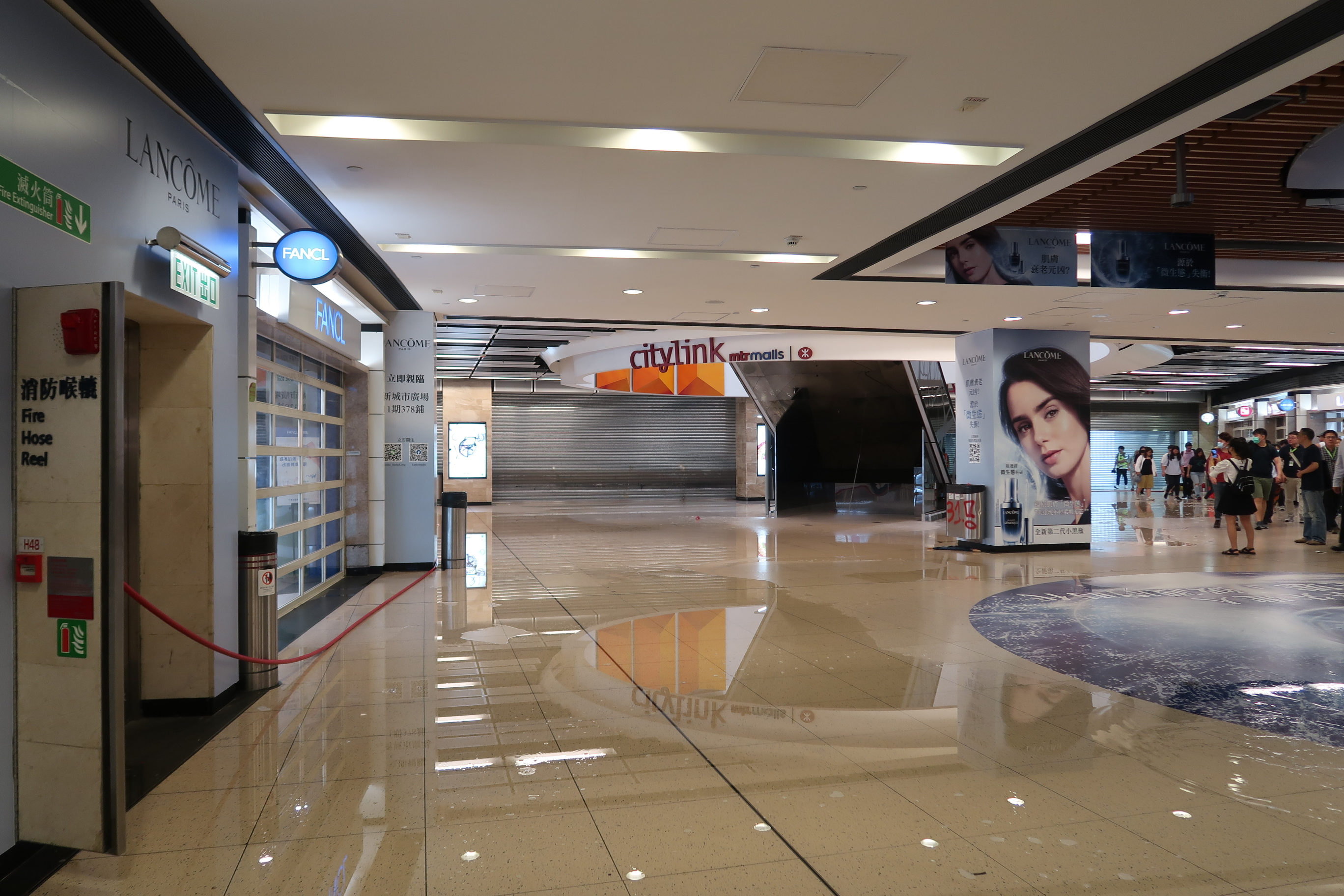 Shatin Station Concouse flooding